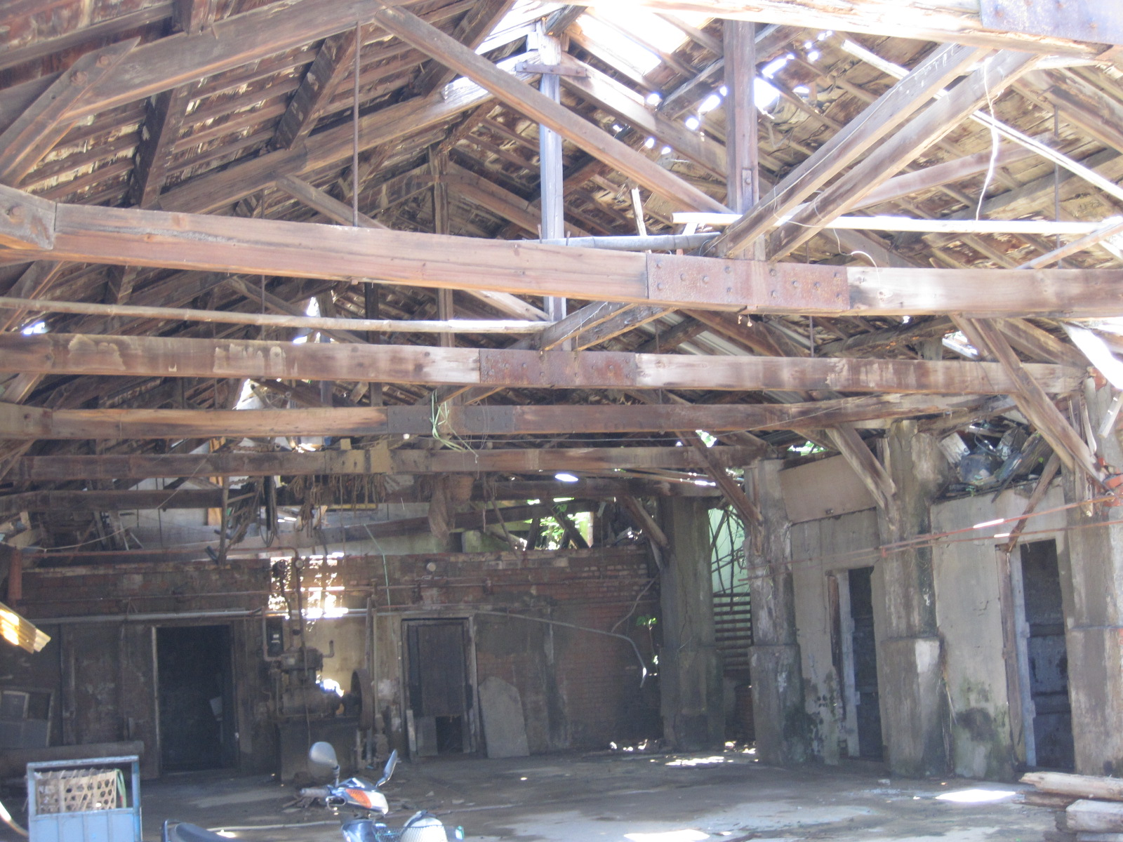 Old Banana Warehouse of the Tainan Prefecture Fruit Marketing Cooperative中文（台灣）: 原台南州青果同業組合香蕉倉庫。